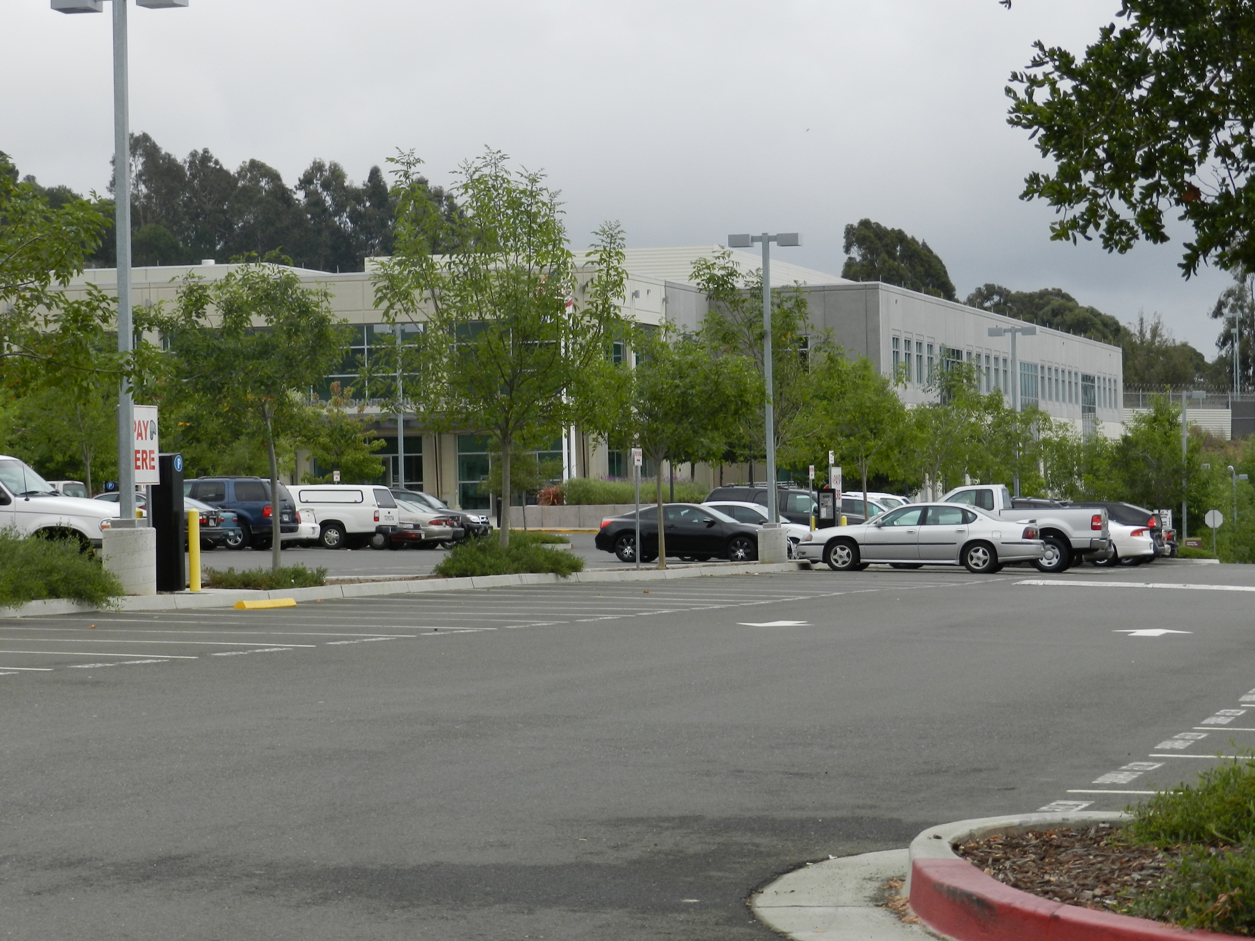 Juvenile Custice Center, San Leandro, California, a division of superior court of Hayward.